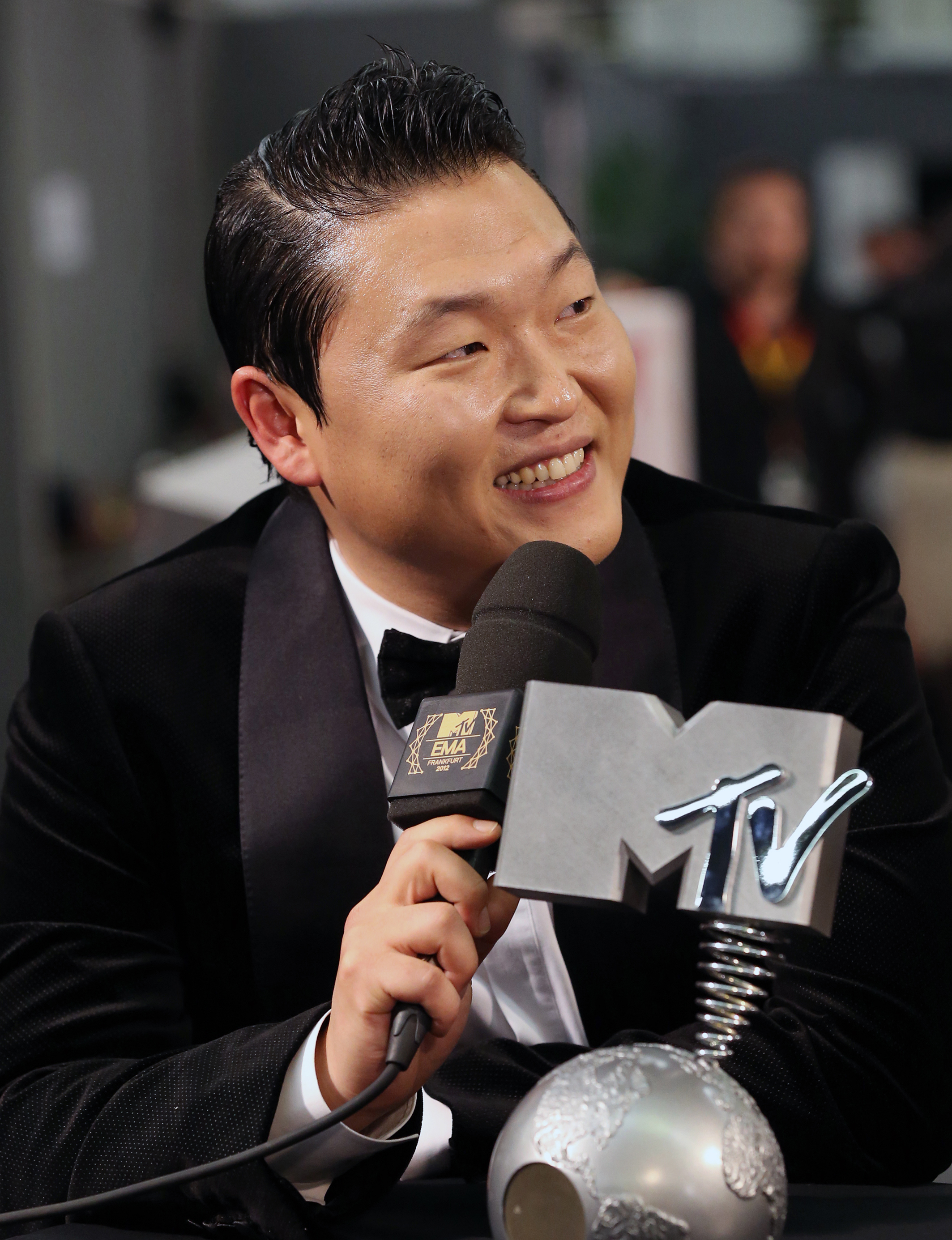 2012 EMTV Award. PSY won 'Best Music Video' Award by 'Gangnam Style'. Frankfurt, Germany